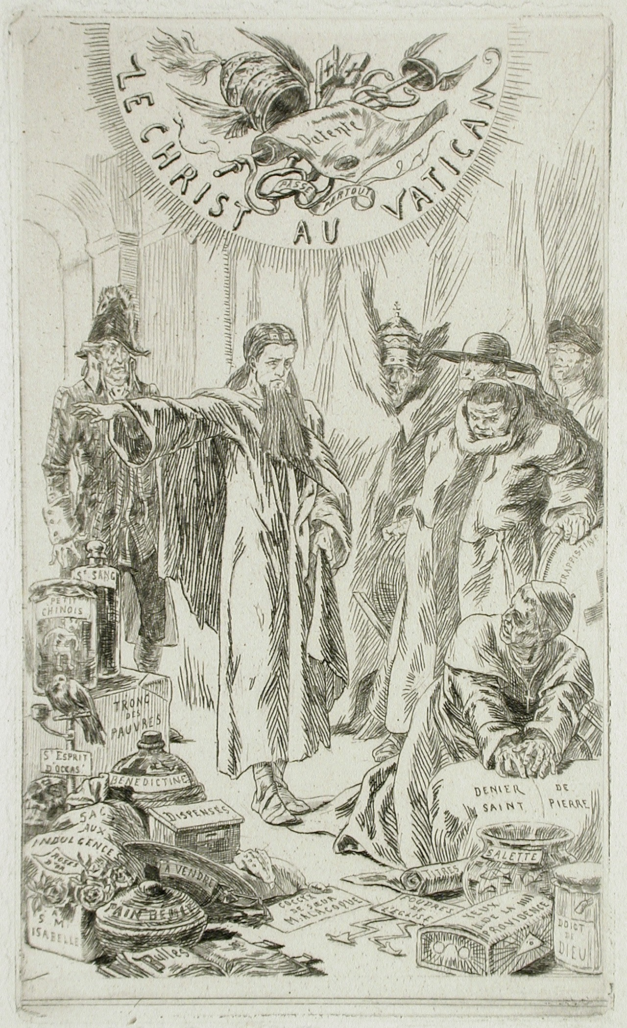 Belgium, 1880 Series: Le Christ au Vatican, frontispiece Prints; etchings Etching Gift of Michael G. Wilson (M.79.233.52) Prints and Drawings